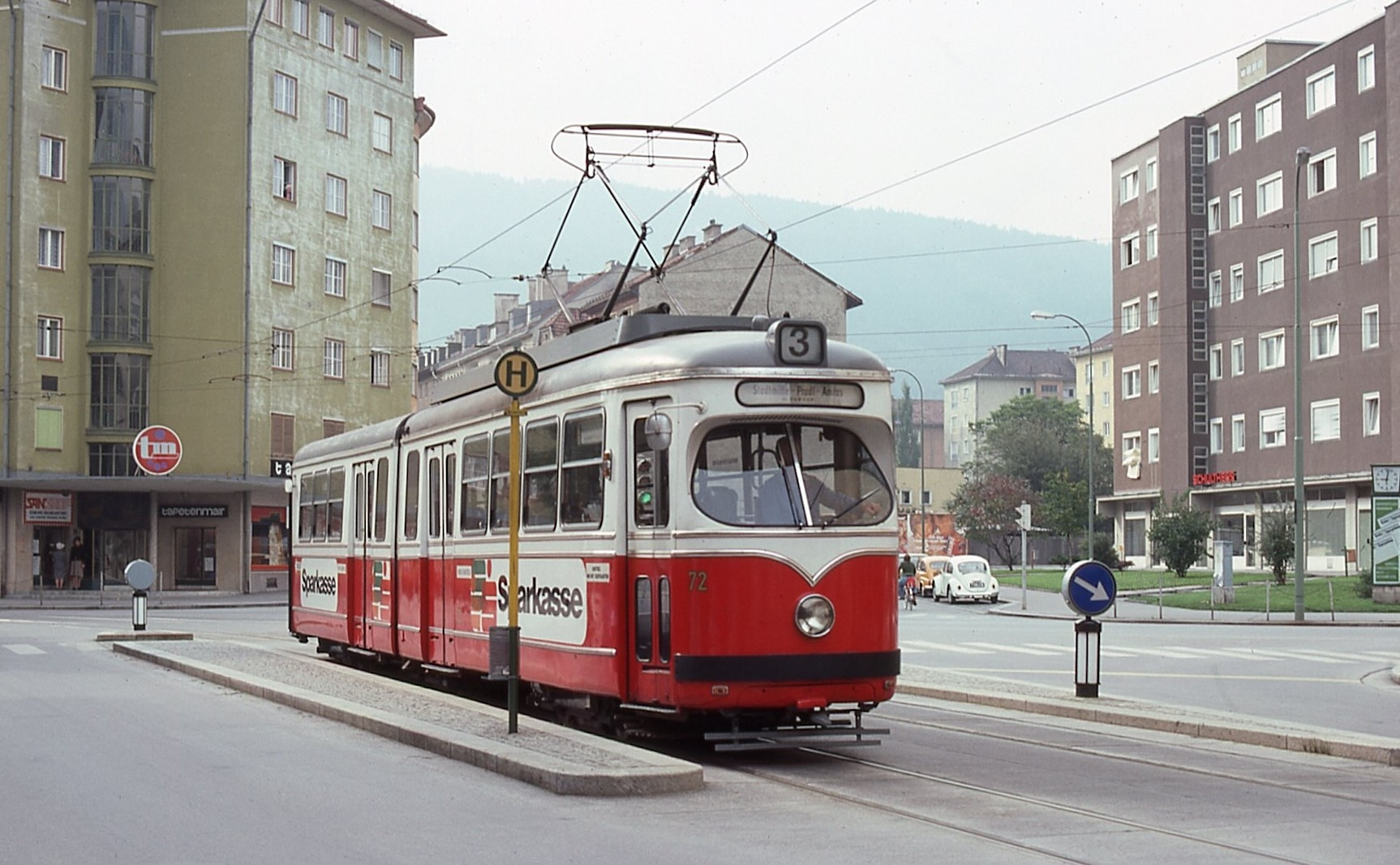 Tram 72 on line 3.